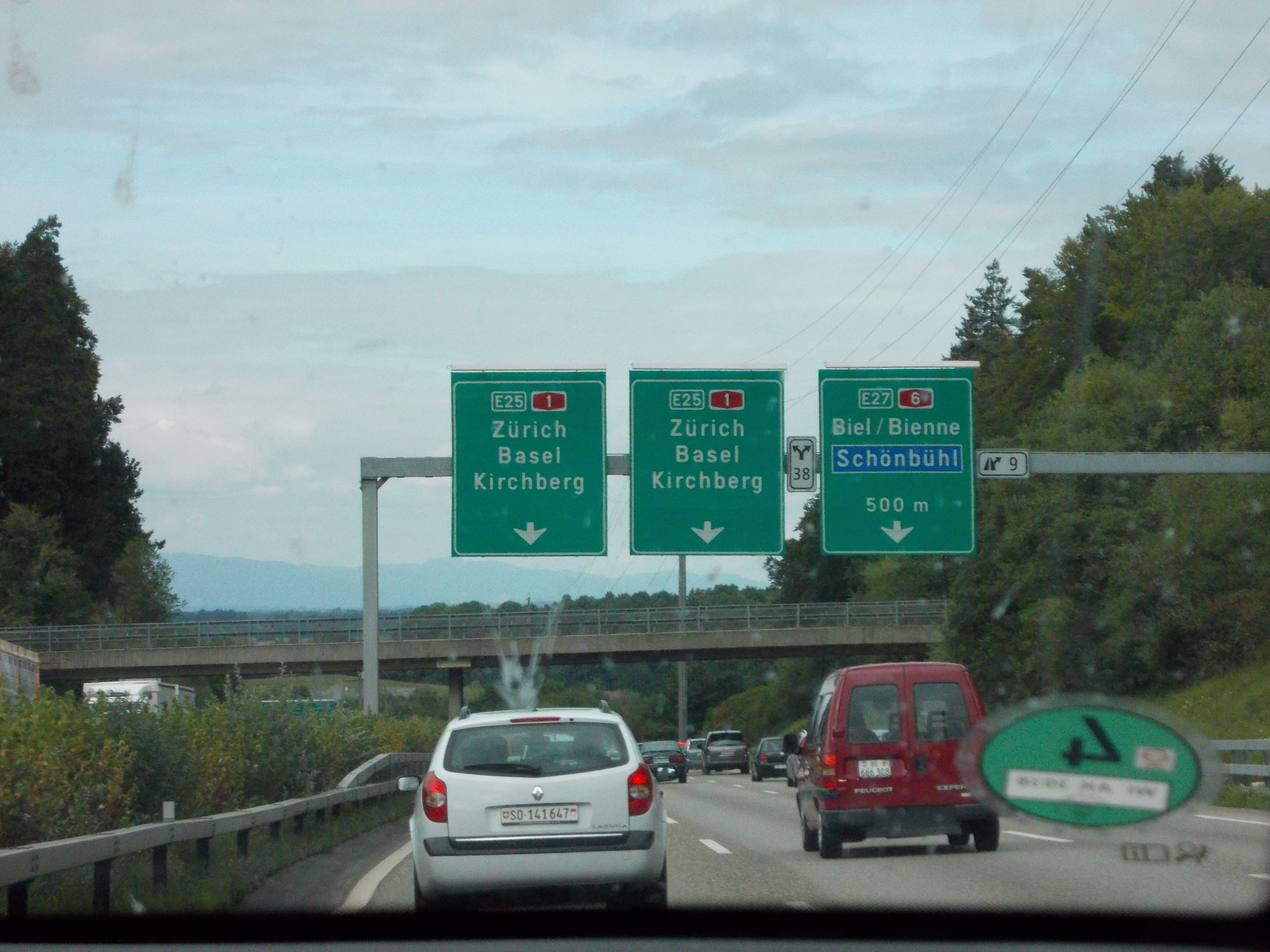 A highway close to Bern